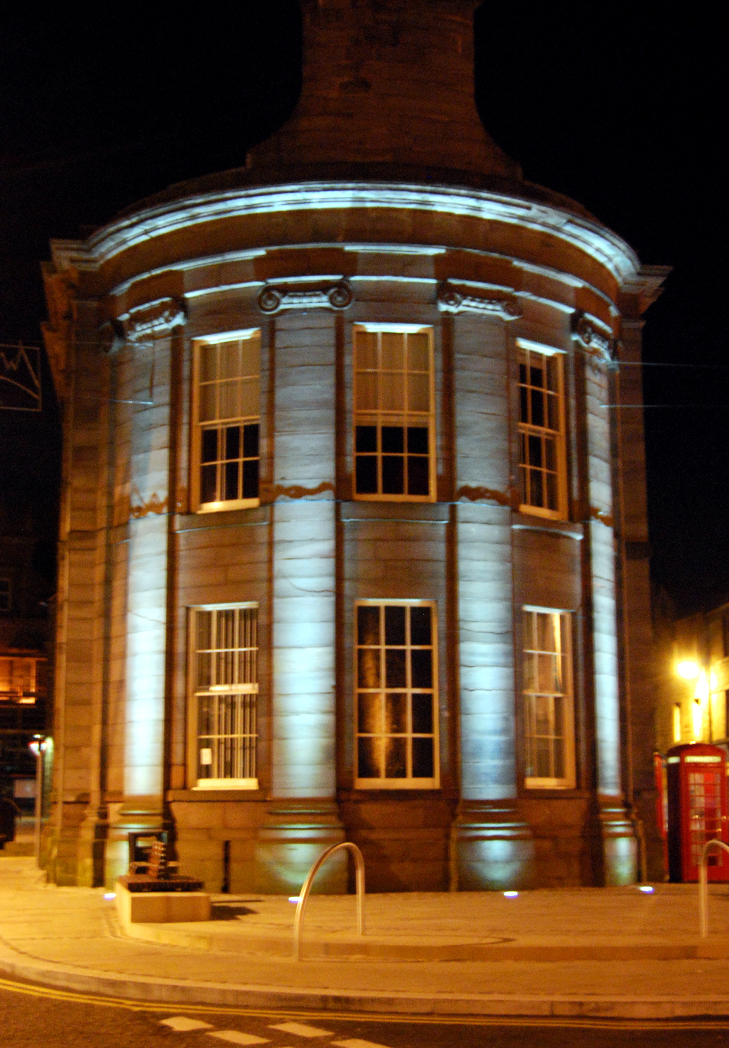 Forfar Town Hall Scotland